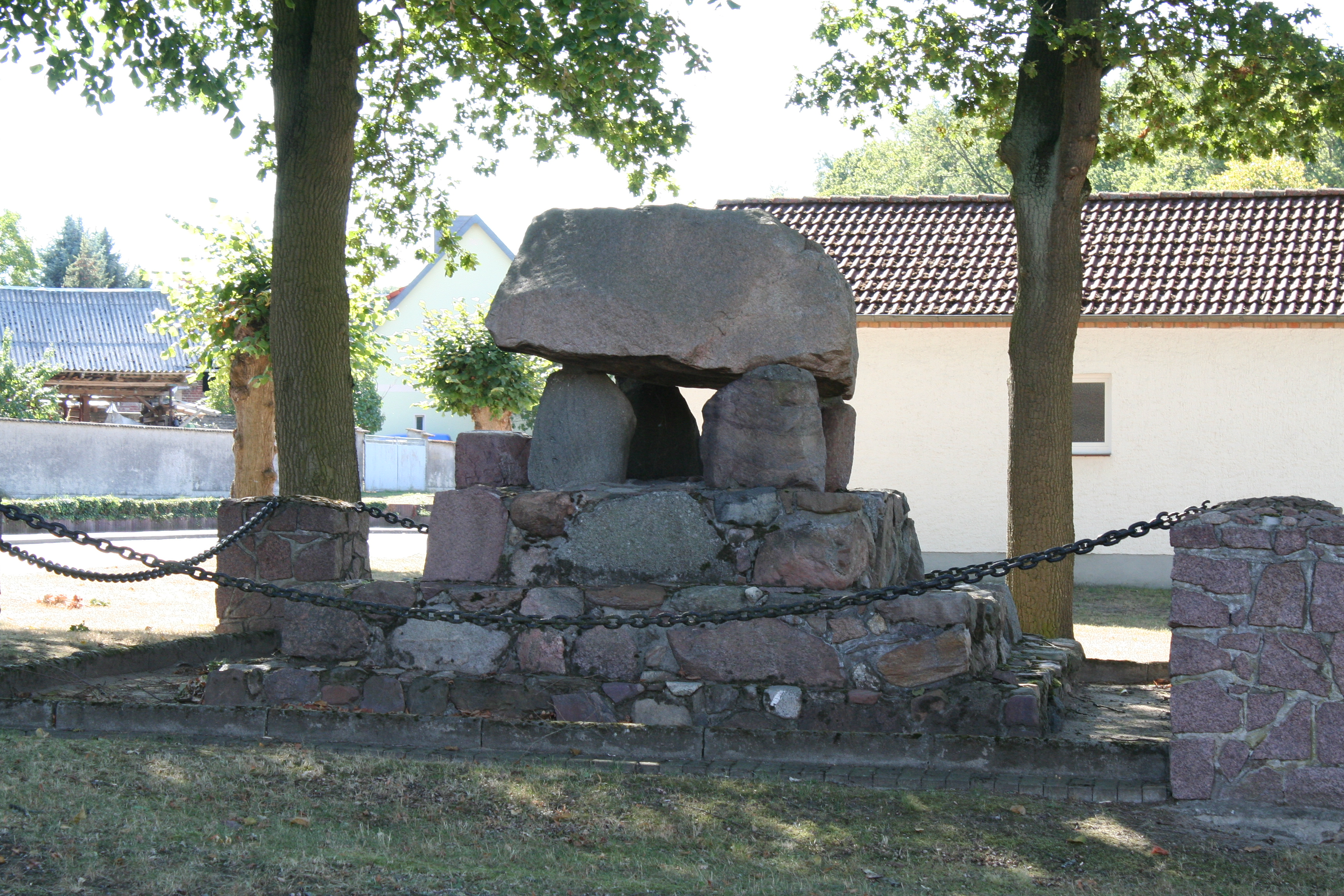 World War I-Memorial in Bornsen